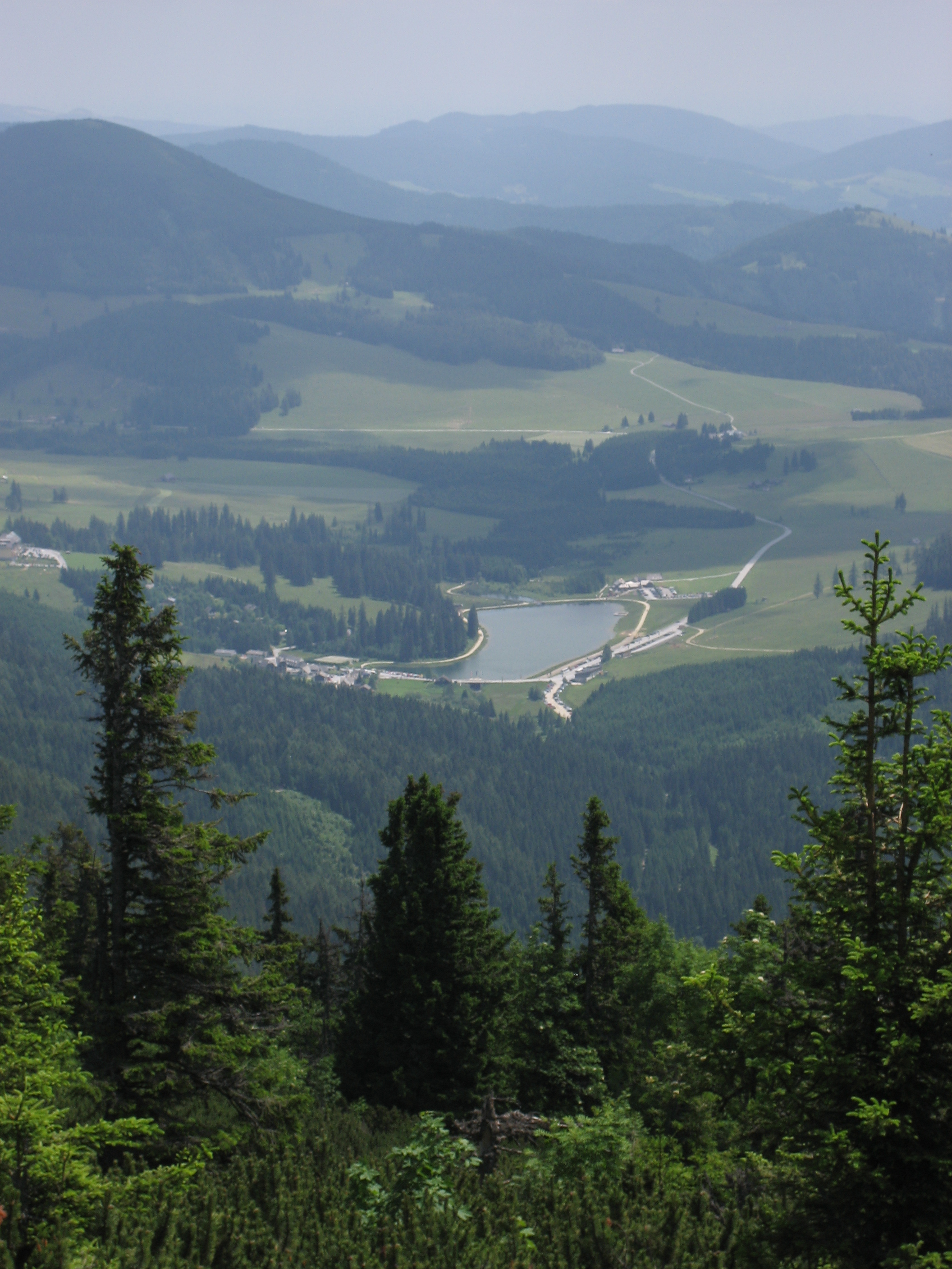 Teichalm in Styria, Austria